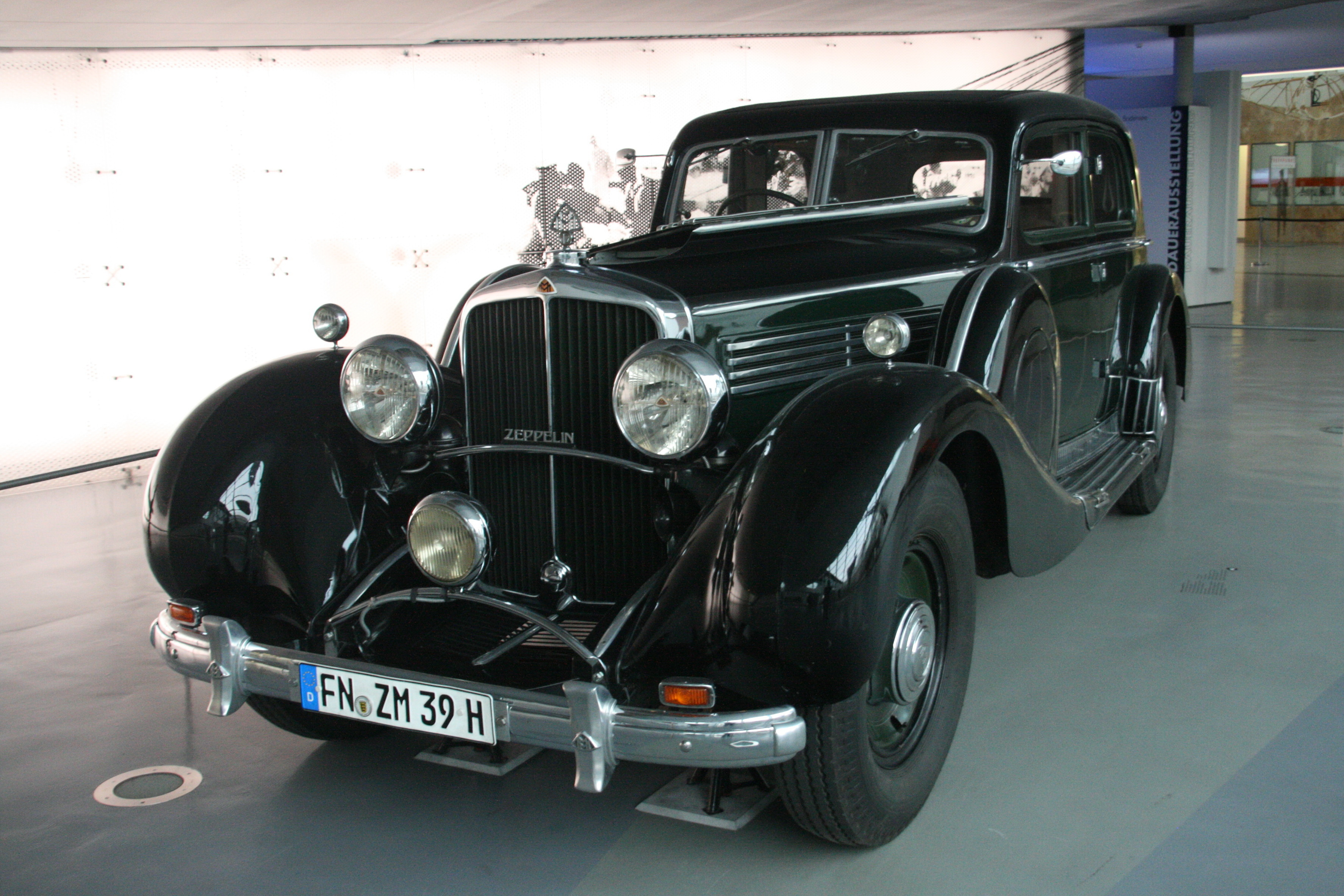 Maybach Zeppelin